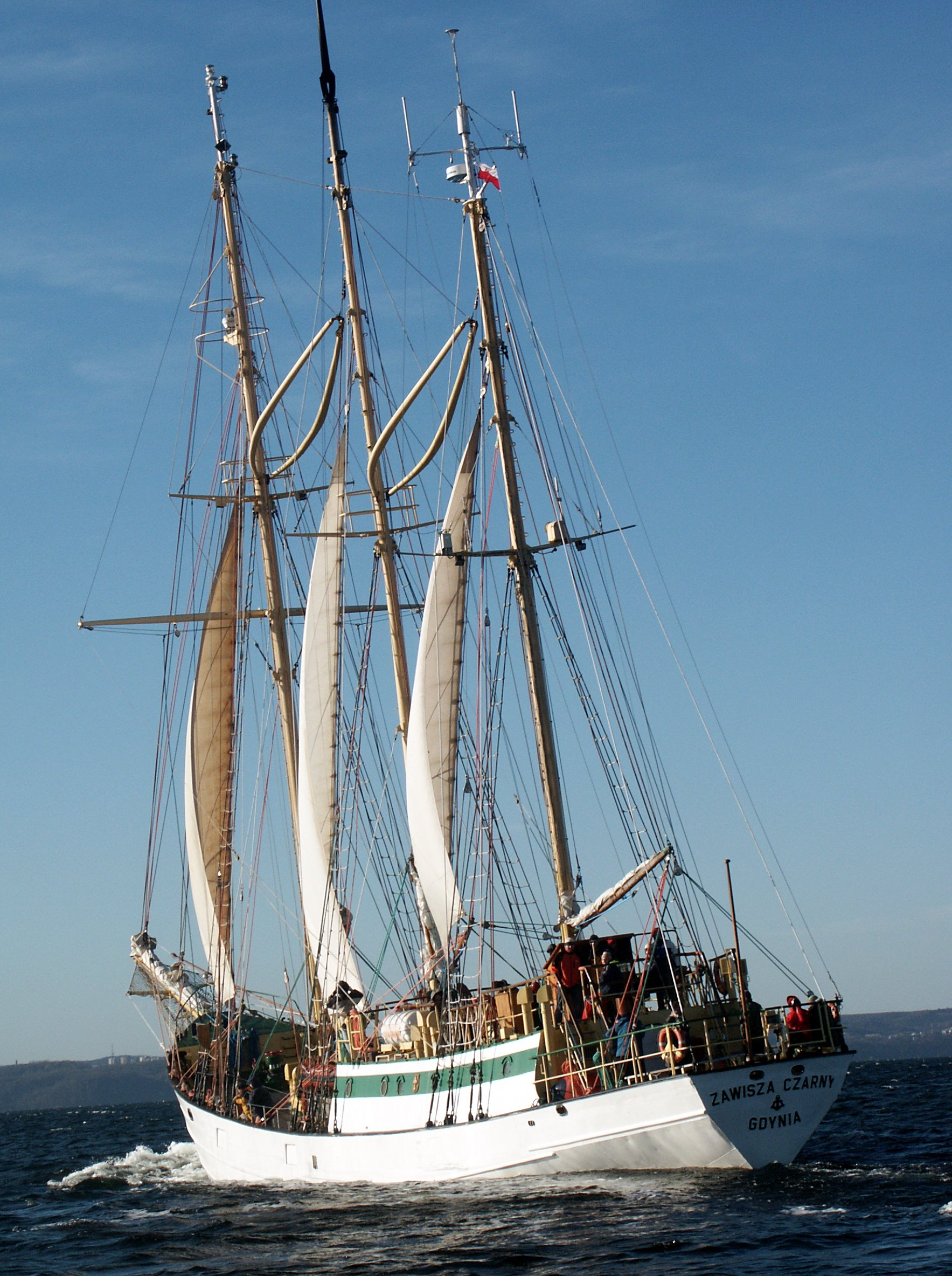 żaglowiec Zawisza Czarny II, Polish sailing vessel Ship Type: 3-MAST-STAGSEGELSCHONER 1952 Built by Stocznia Pólnocna, Gdansk, Poland Overall length: 42.90 m Length (hull): 36.07 m Breadth: 6.76 m Draught: 4.60 m Sail area: 550 m2 Main engine: DKW Diesel, 300 Pk History 1952 Named: Zawisza Czarny as fishing vessel Flag: Poland 1961 Sold to the Polish sea scouts and converted to a training and adventure ship Registered port: Kolobrzeg Flag Poland 1967 Extended by 3 meters during further work.